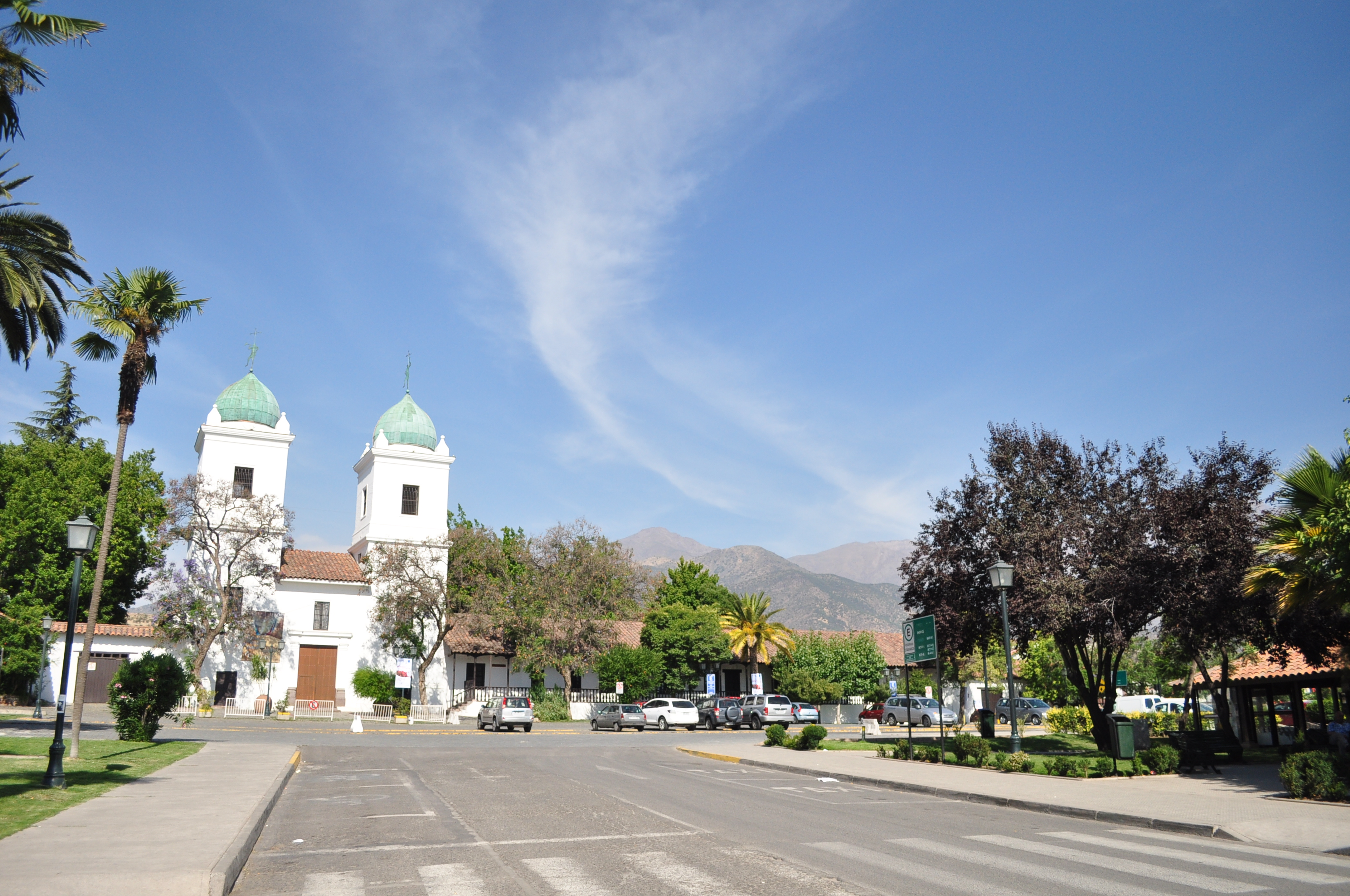 This is a photo of a national monument in Chile: 851